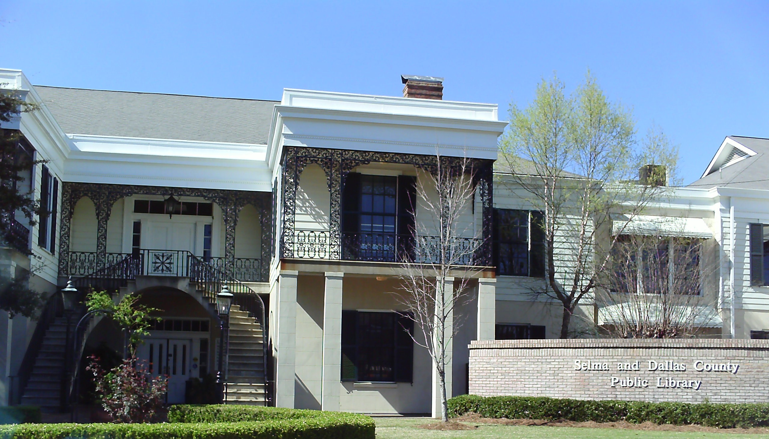 Selma and Dallas County Public Library